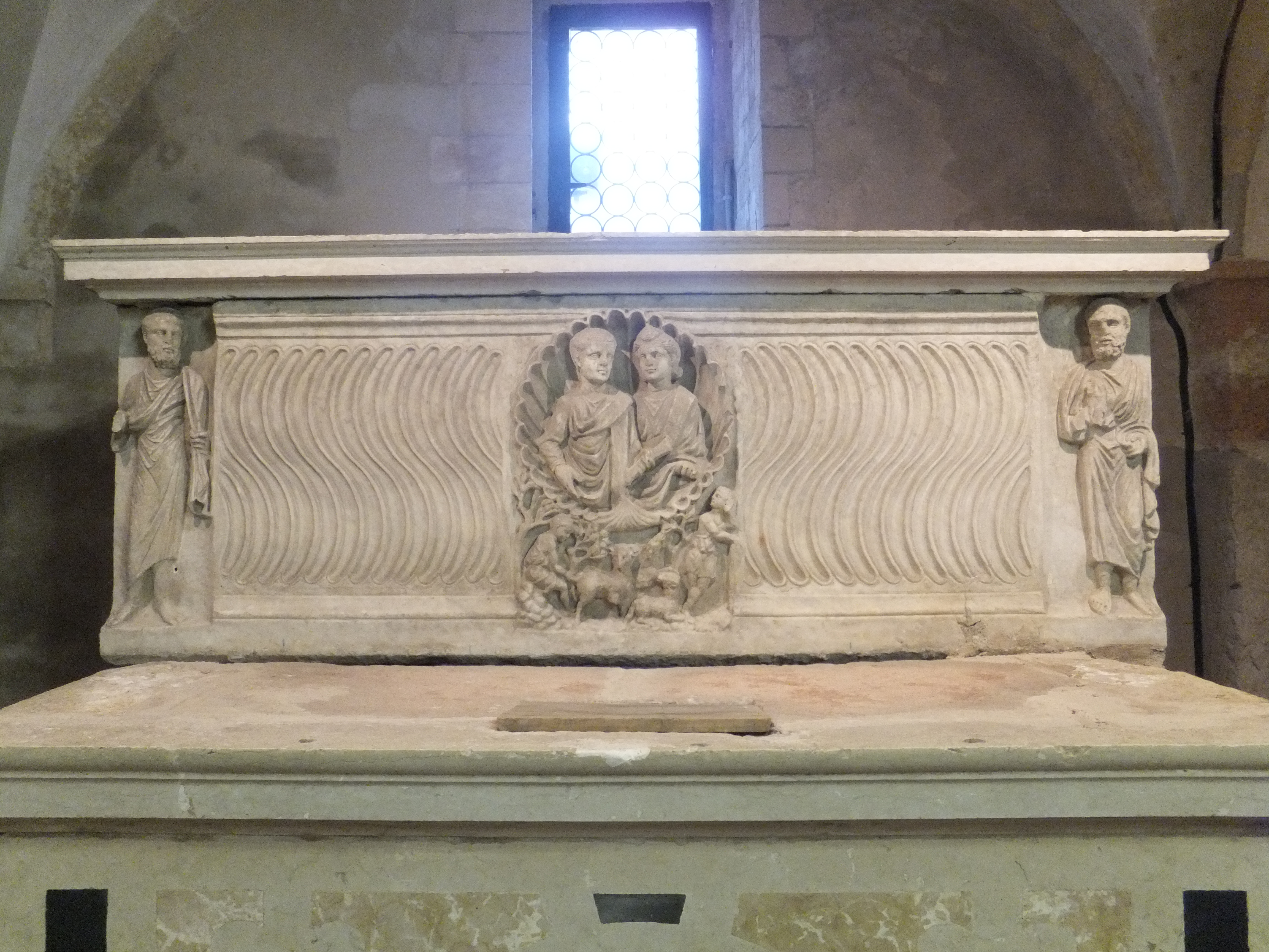 Verona, church of San Giovanni in Valle - Crypt - Sarcophagus